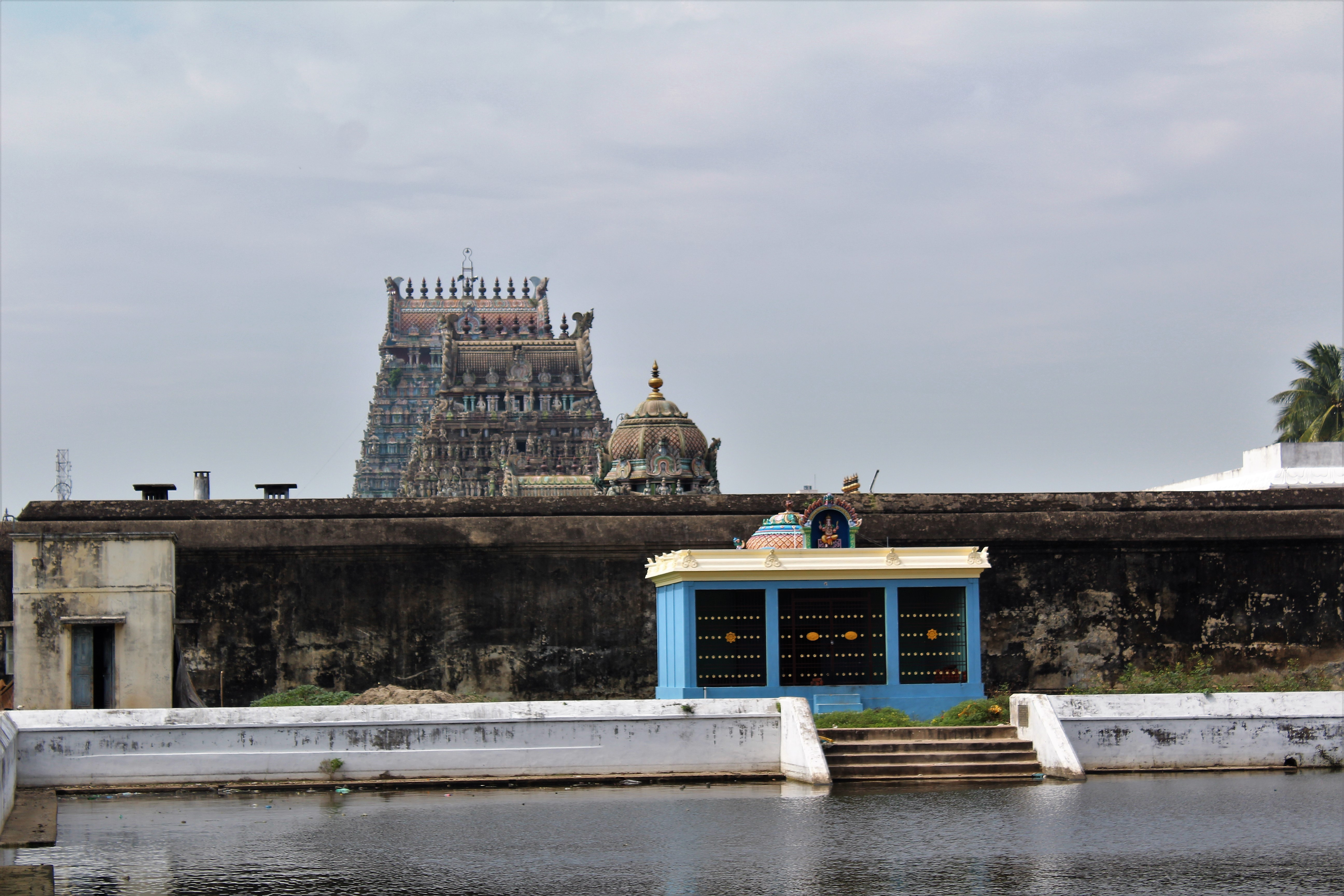 Amirthakadeswarar temple Thirukadayur